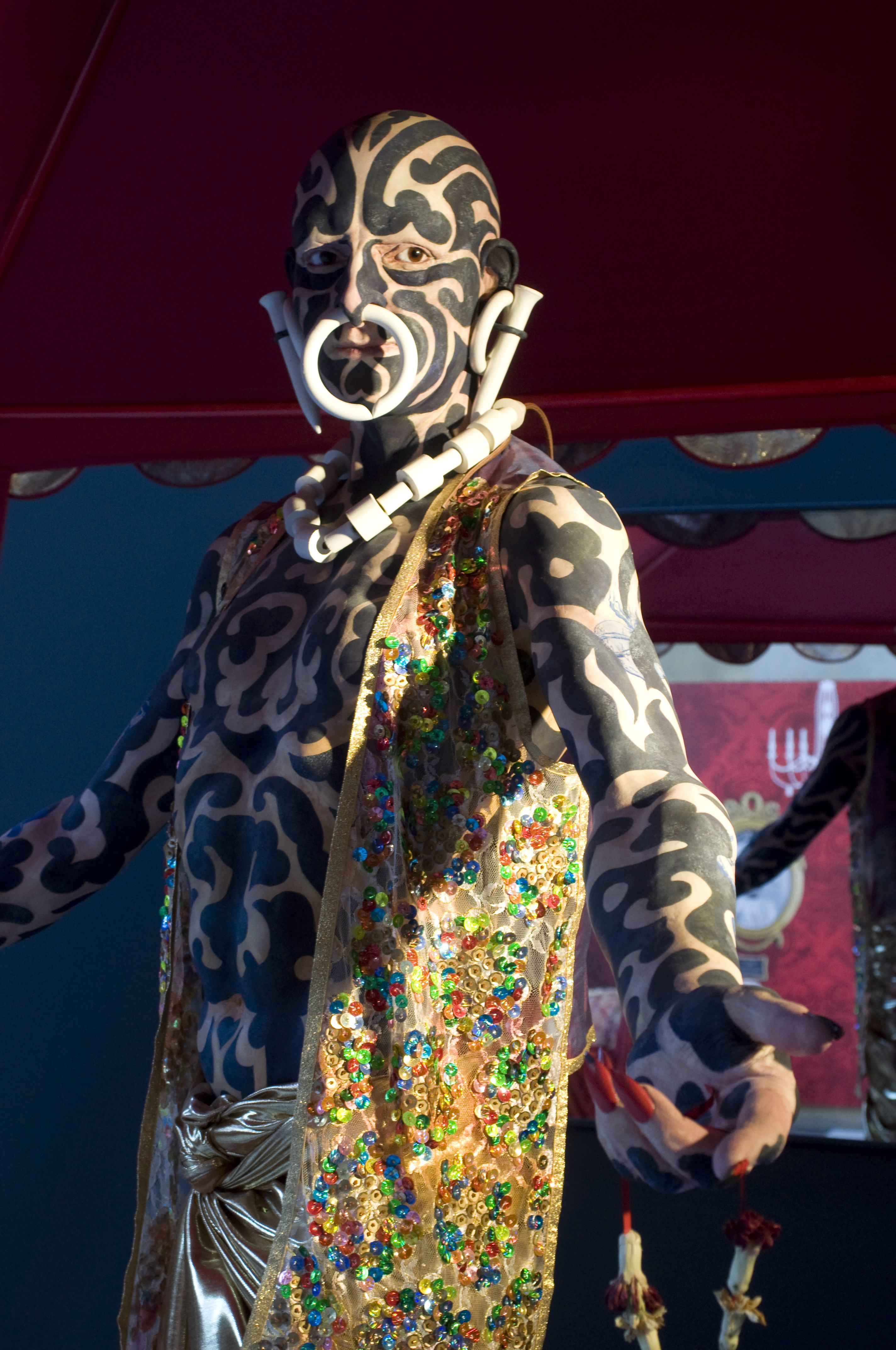 Statue of Horace Ridler aka The Great Omi